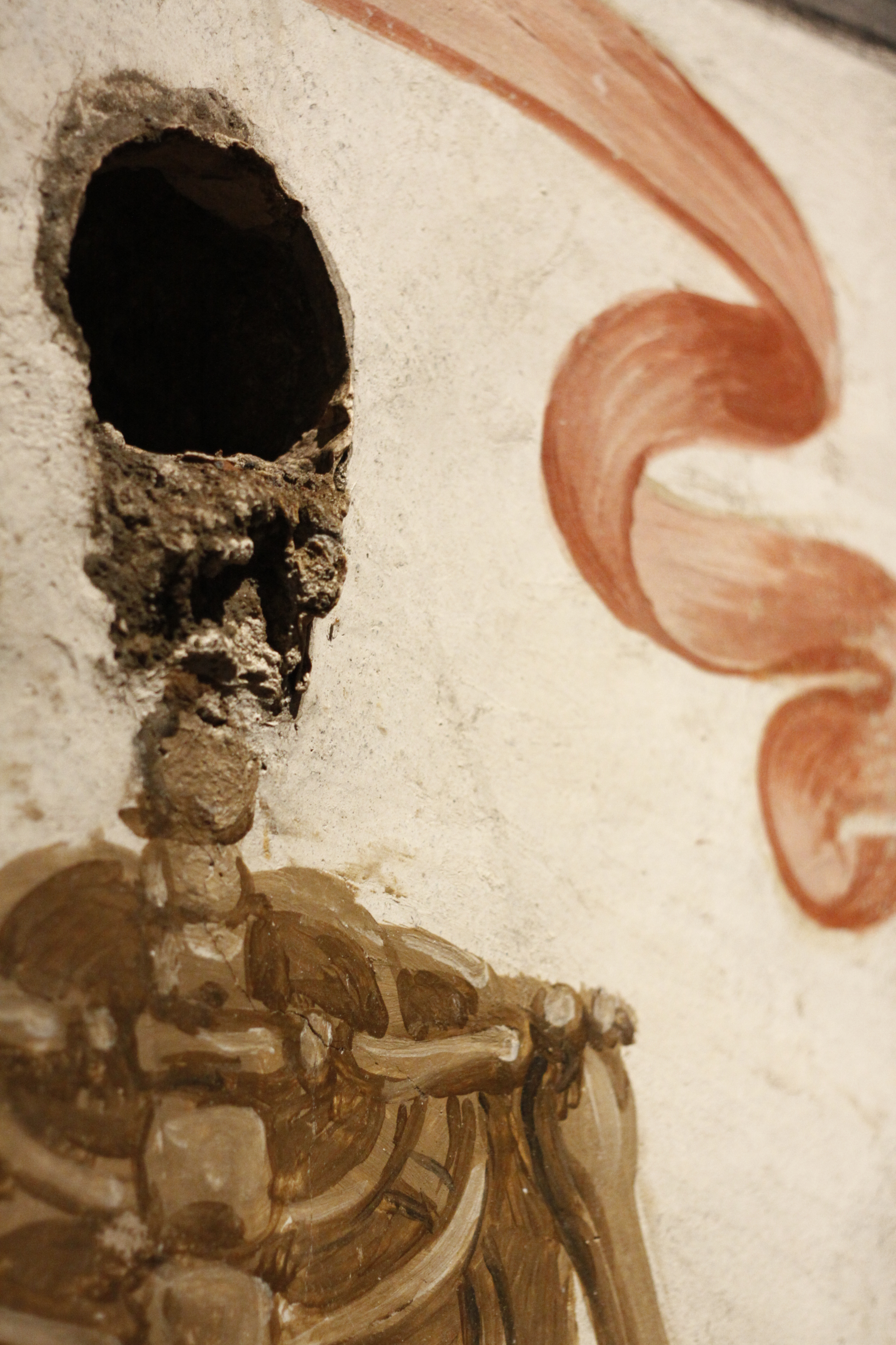 Dettaglio dell'affresco "Allegoria della morte" presente nelle catacombe di san Gaudioso, XVII sec.